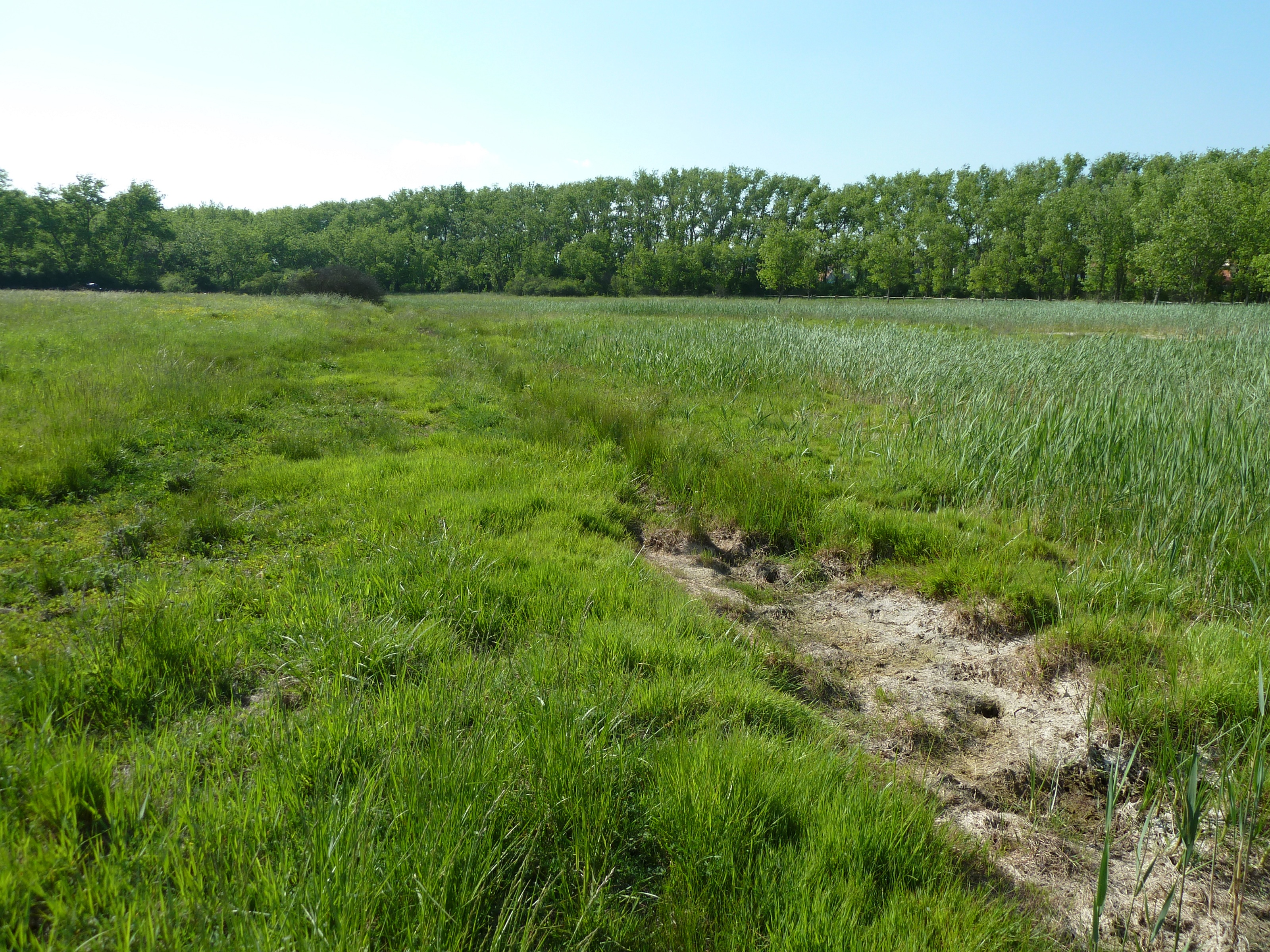 man-made depression in NNR Slanisko u Nesytu (south Moravia, Czech Republic)